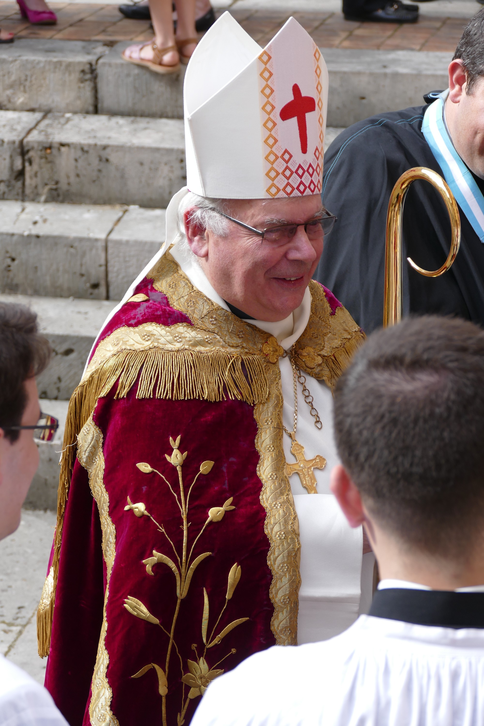 Mgr Hubert Herbreteau, bishop of Agen in Agen (Lot-et-Garonne, Aquitaine).